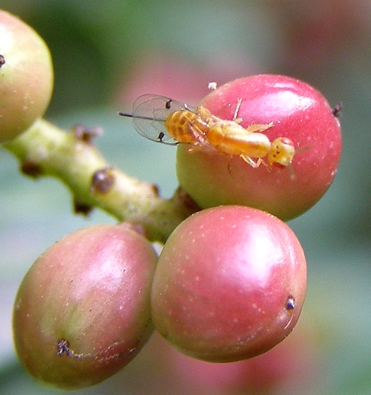 Megastigmus pistaciae F (ovipositing on a fruit of Pistacia lentiscus)